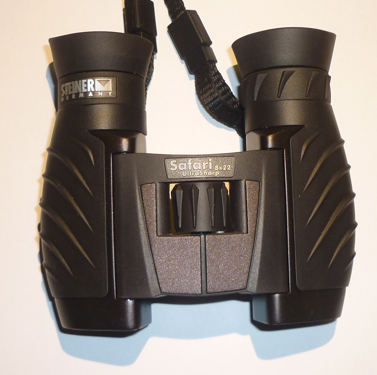 Compact binocular 8x22 "Safari UltraSharp" by Steiner Germany